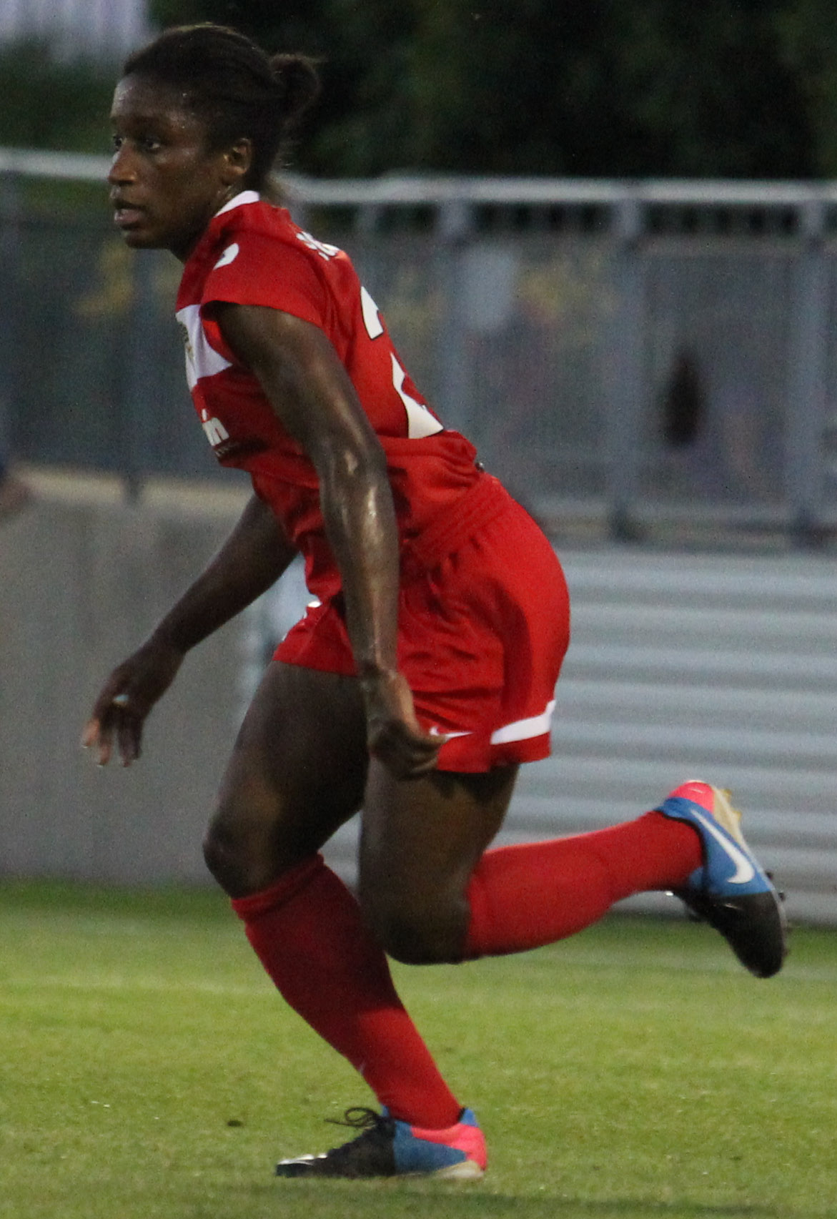 Jasmyne Spencer (Washington Spirit)